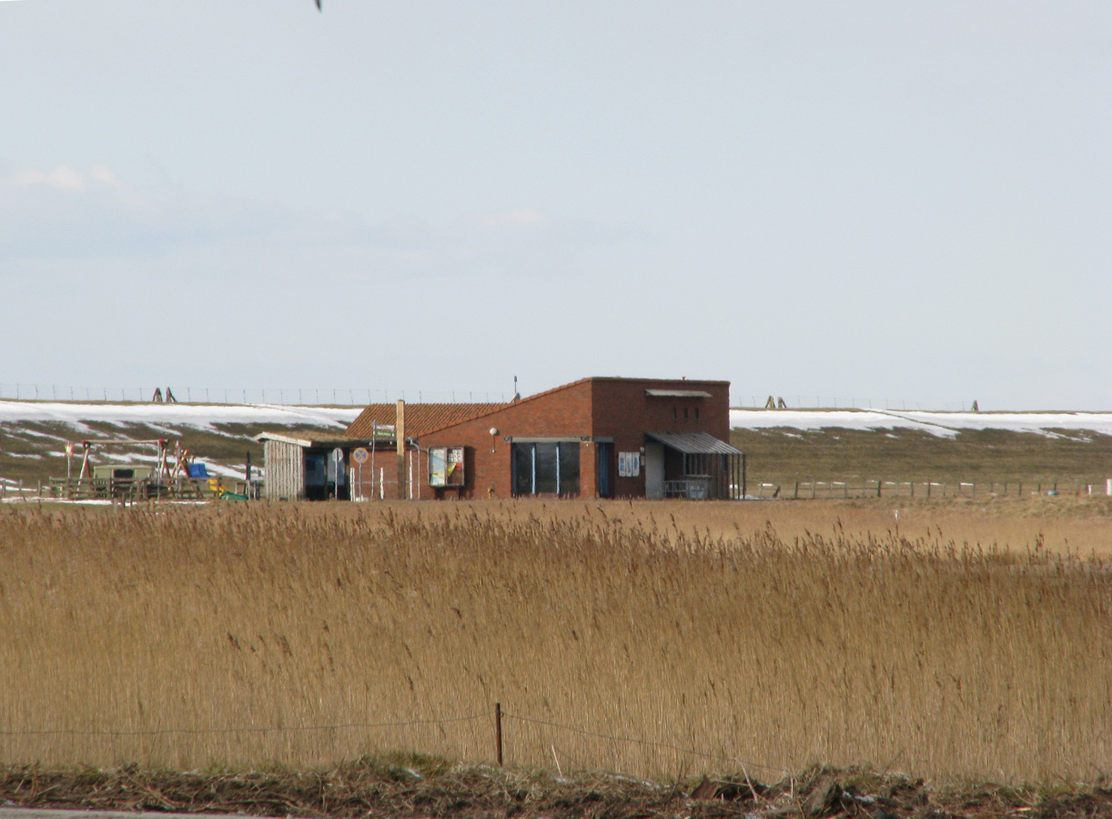 Cafeteria Lüttmoorsiel is a small snack bar situated in Beltringharder Koog, municipality of Reußenköge. It is a subsidiary amenity of Hotel Ulmenhof, Bredstedt and seasonally open during the summer period.